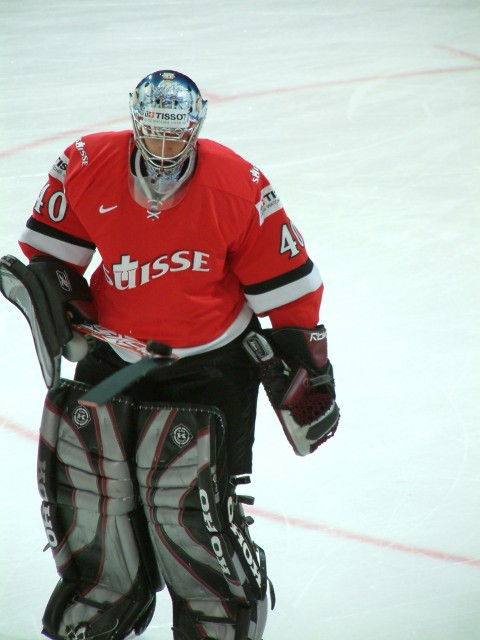 David Aebischer at the WC 2005